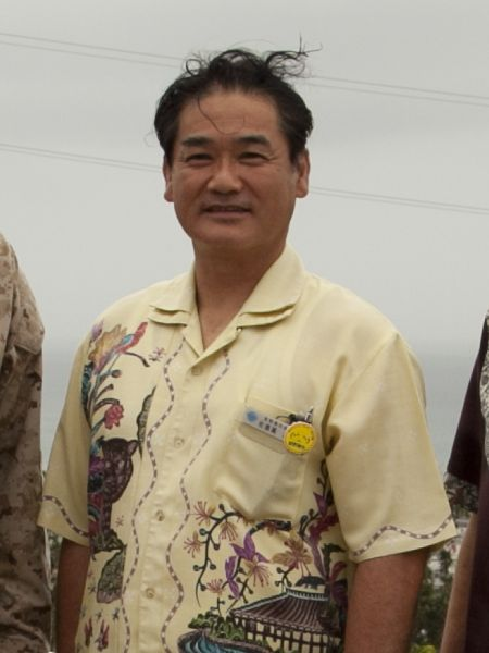 Atsushi Sakima, the 16th and 17th mayor of Ginowan City, Okinawa Prefecture, at Marine Corps Air Station Futenma.